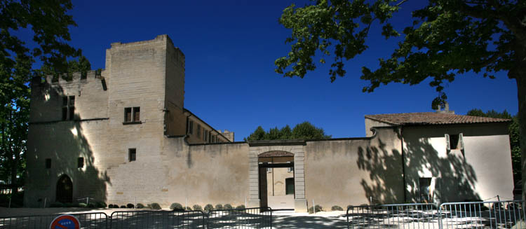 Town of Le Pontet in Vaucluse, France